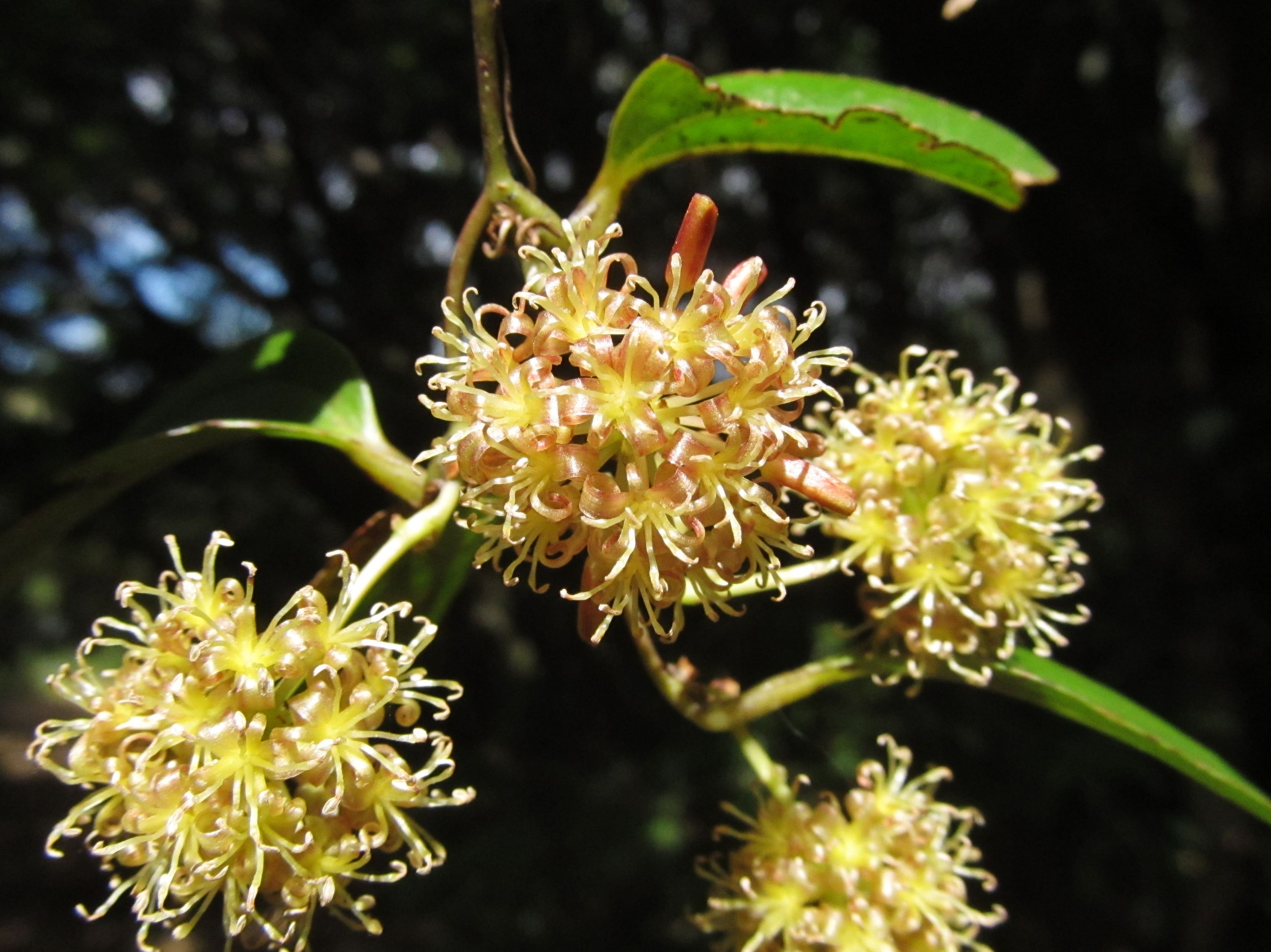 Photo taken in Peppara Wildlife Sanctuary, Kerala